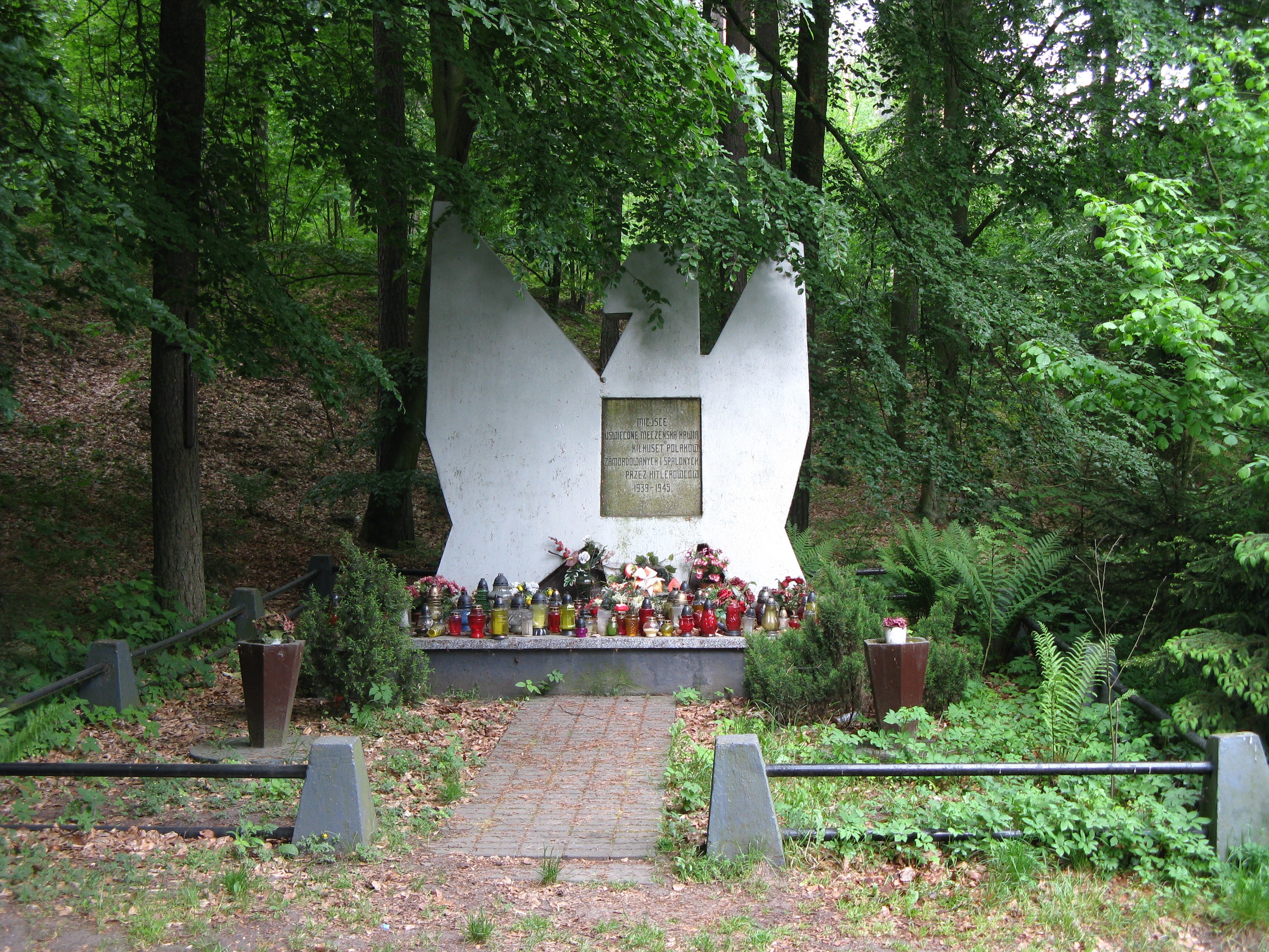 Monument to victims of German National Socialism in Brzezinki